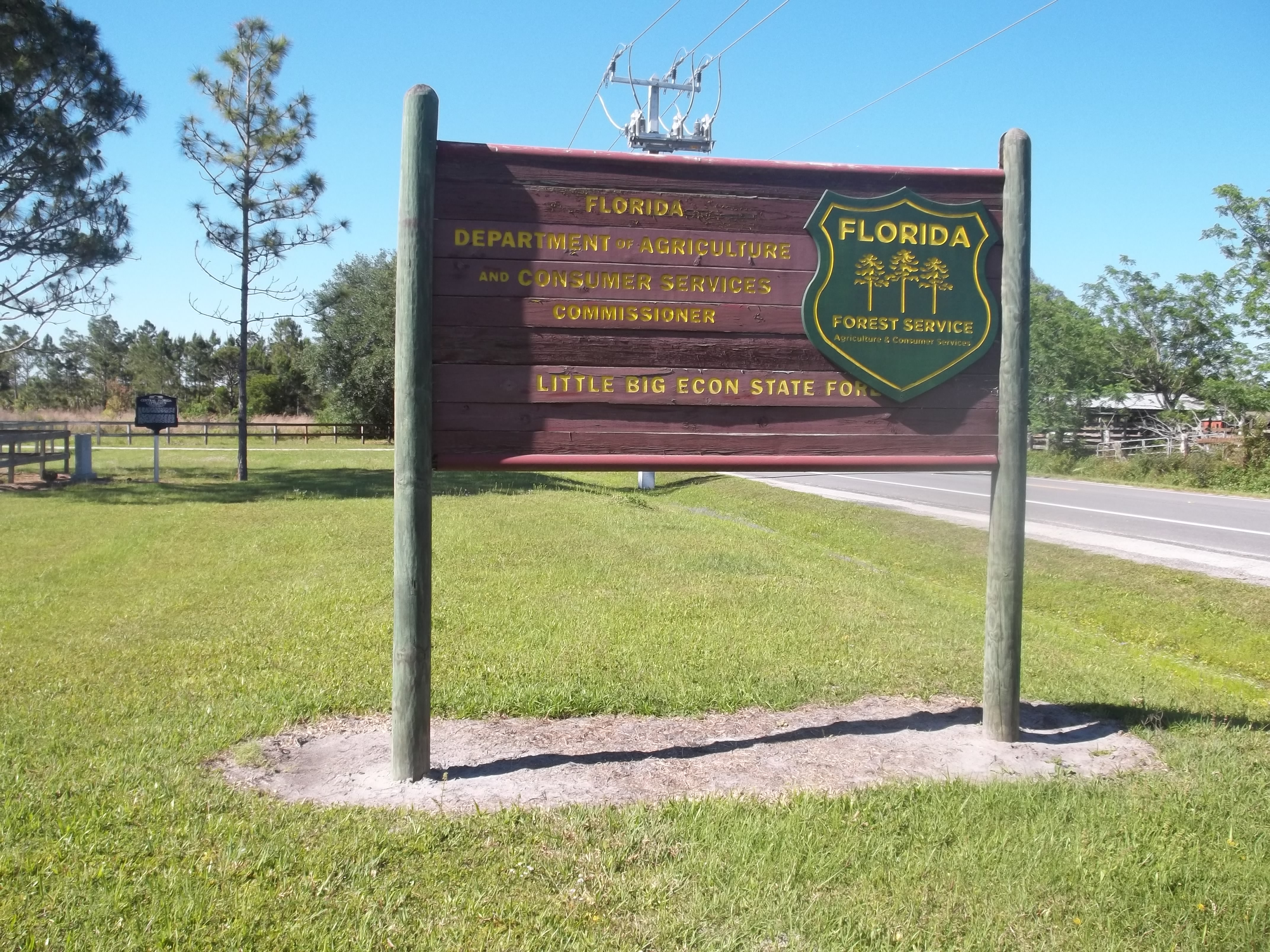 Little Big Econ State Forest: Equestrian trailhead